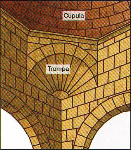 Squinch